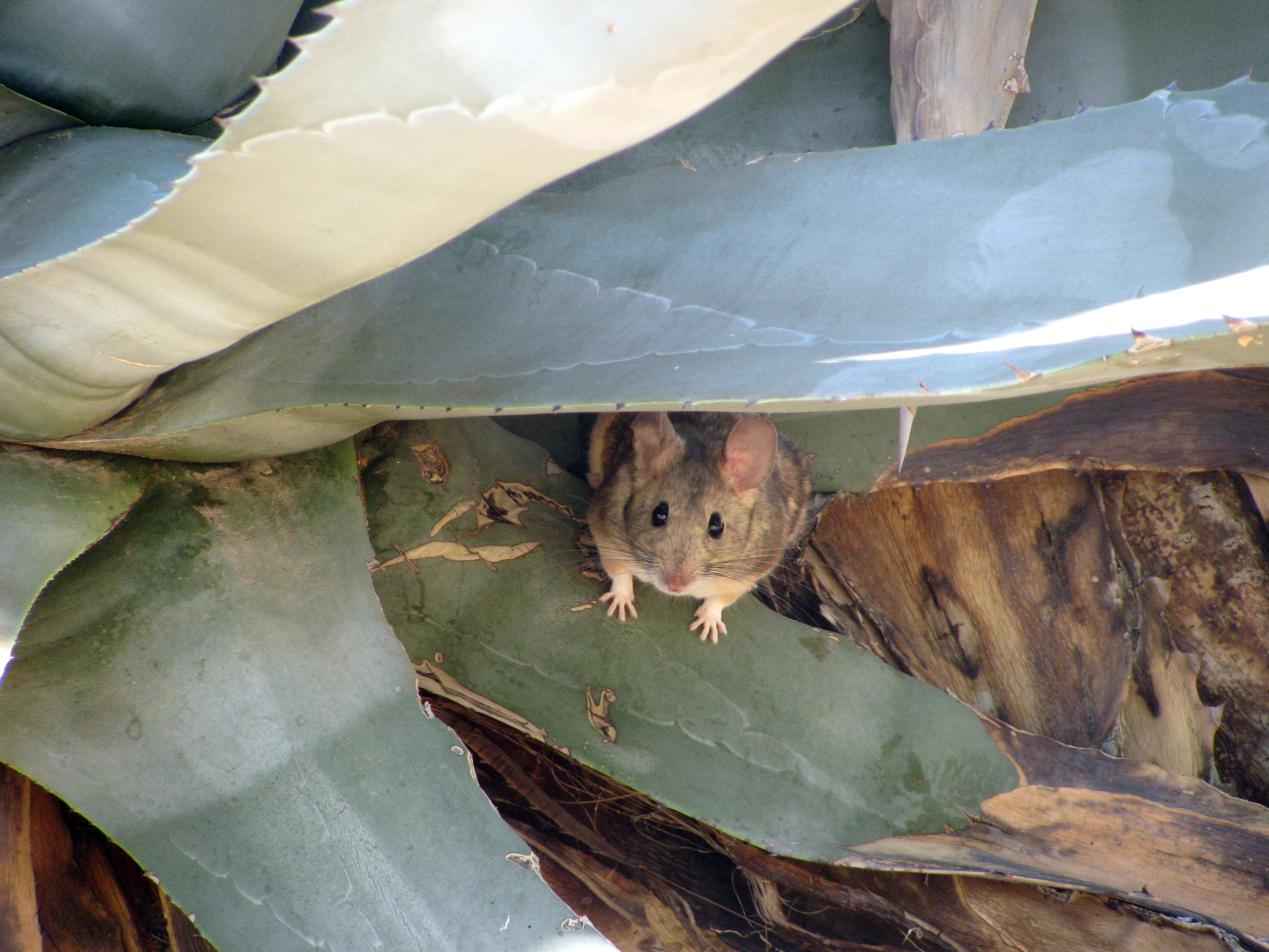 Desert Packrat (Neotoma lepida) in a Century Plant (Agave americana) in Joshua Tree, California, USA, April 2015. Photo by Jules Jardinier